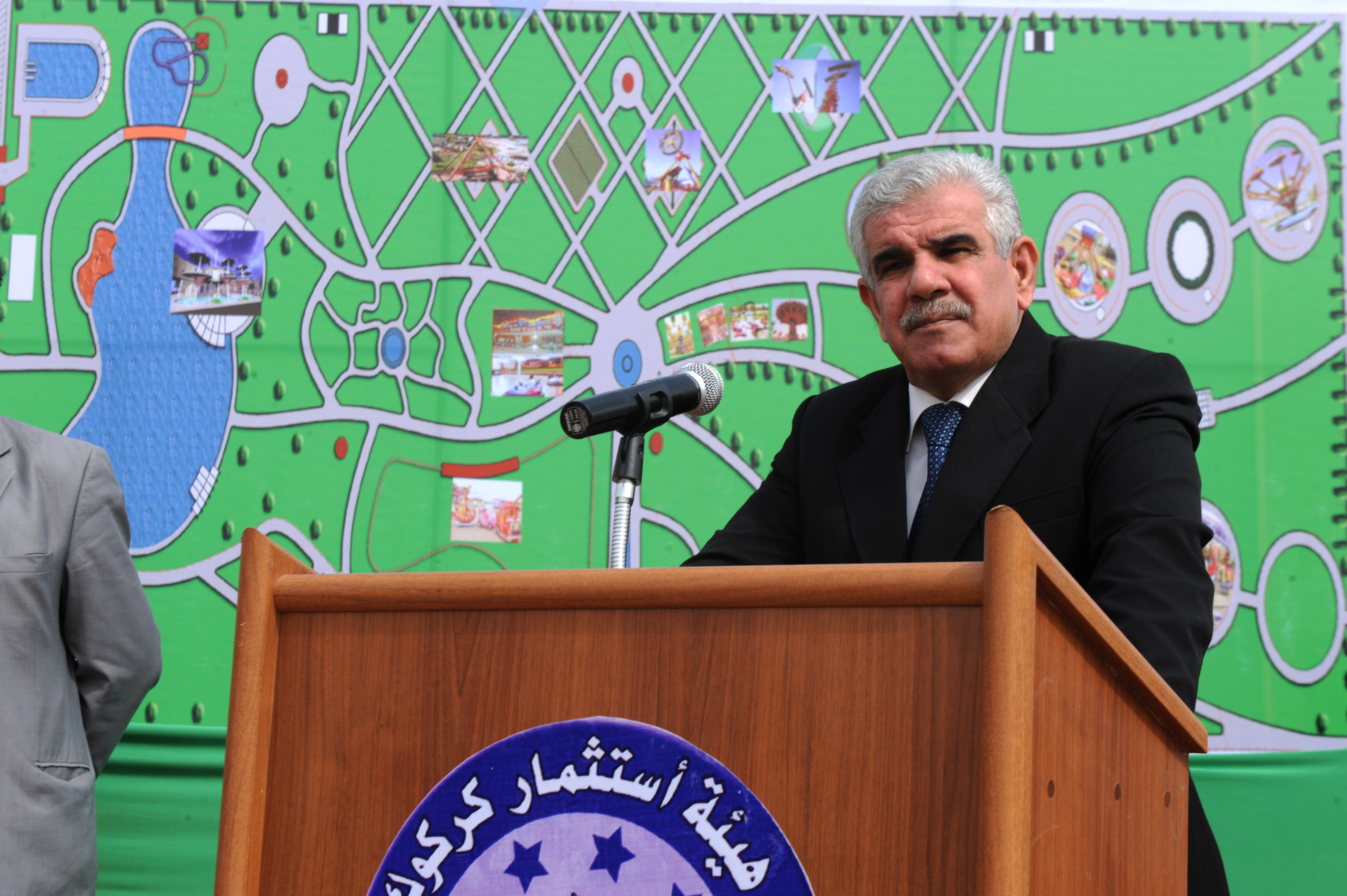 Governeur Abdul Rahman Mustafa, of Kirkuk province, Iraq, speaks during the ribbon-cutting ceremony for Kirkuk Central Park in Kirkuk, Iraq, March 17, 2010. Iraqi leaders gathered to celebrate the opening of an Iraqi-funded, $5-million project to renovate the Kirkuk Central Park, a theme park which will have several rides and attractions for residents to enjoy.